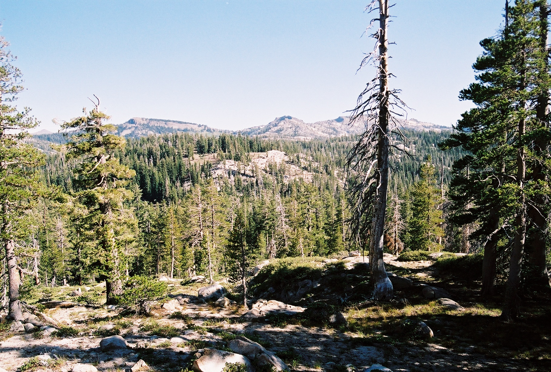 Patchy nature of subalpine vegetation, Sierra Nevada, California.